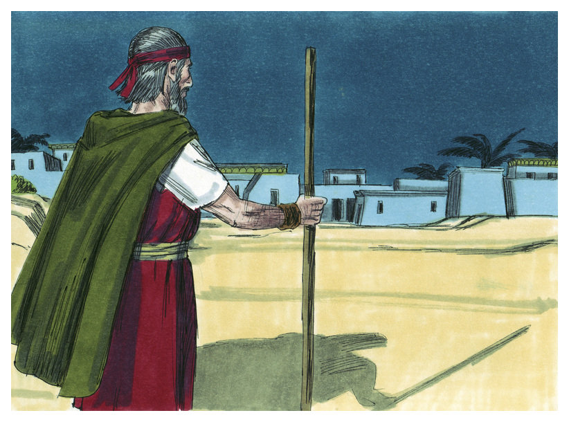 Biblical illustration of Book of Exodus Chapter 11